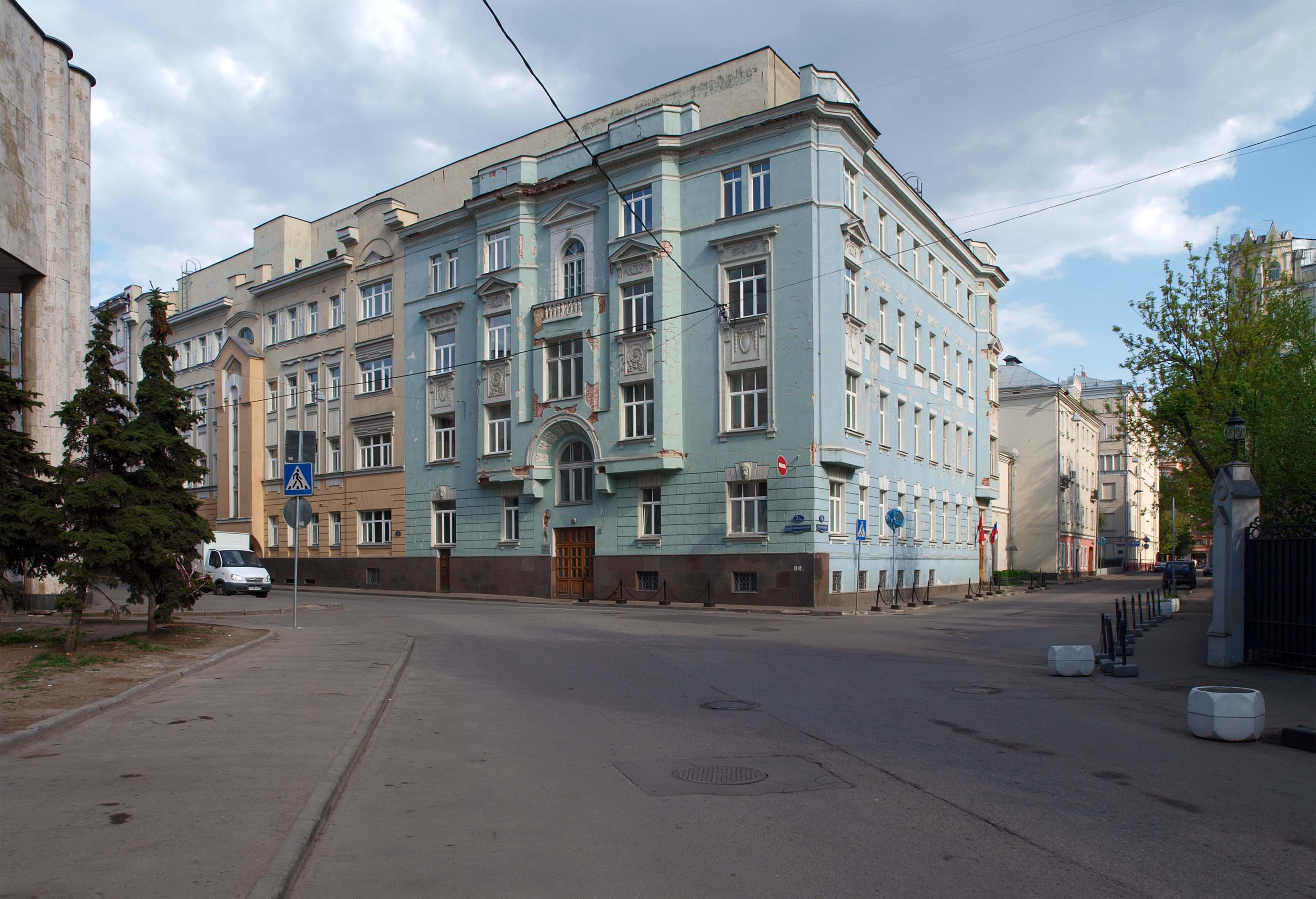 Junction of Blagoveshchensky Lane (left), Trekhprudny Lane (right) and Yermolayevsky Lane (behind), Moscow.